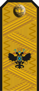 Rank insignia of the Imperial Russian Navy (IRB) until 1917, here "Rear Admiral" (OF6).